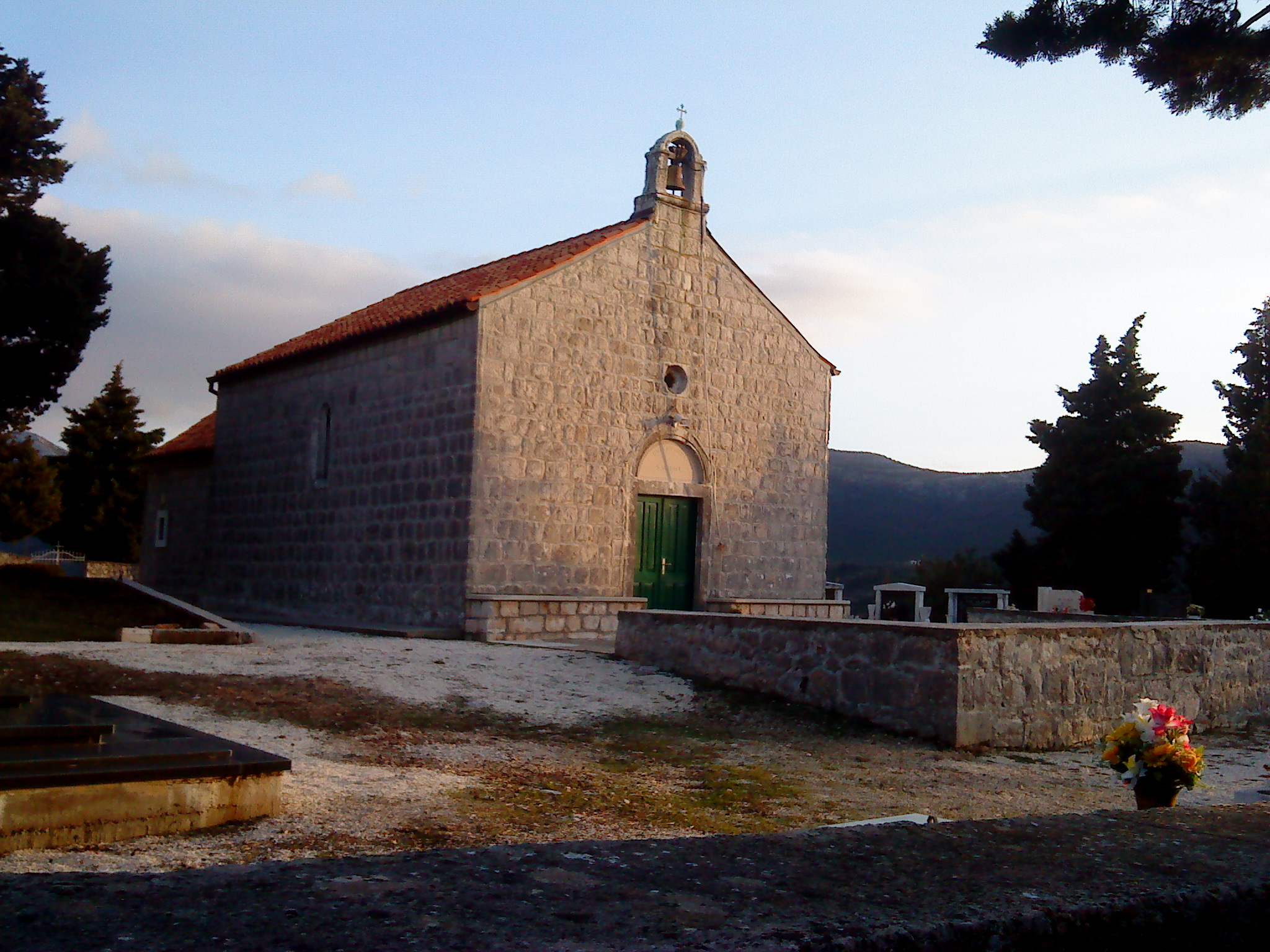 St. Michael church atPelješka Dubrava cemetery